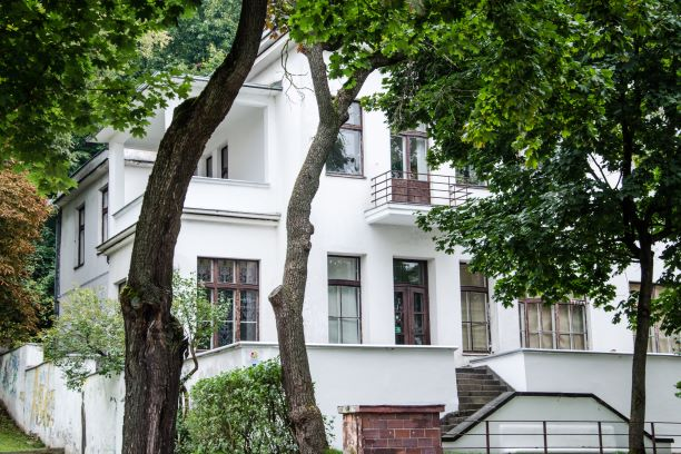 Kaunas Artists' House